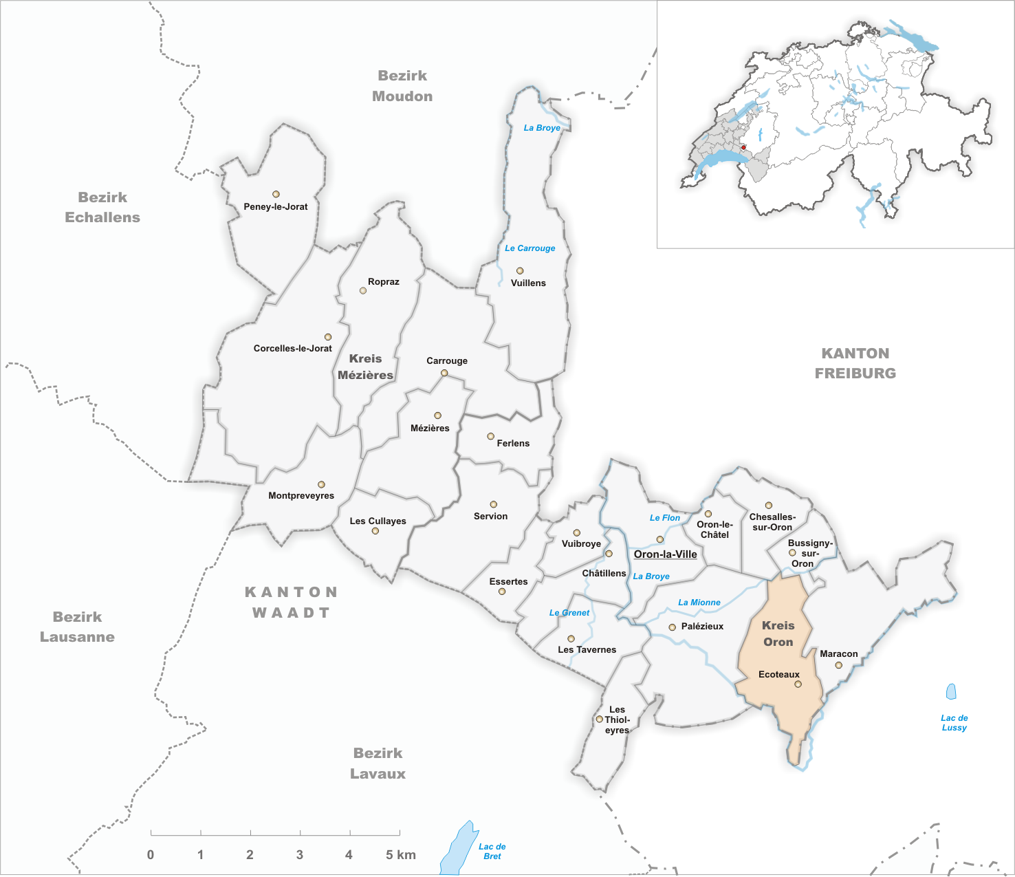 Municipality Ecoteaux